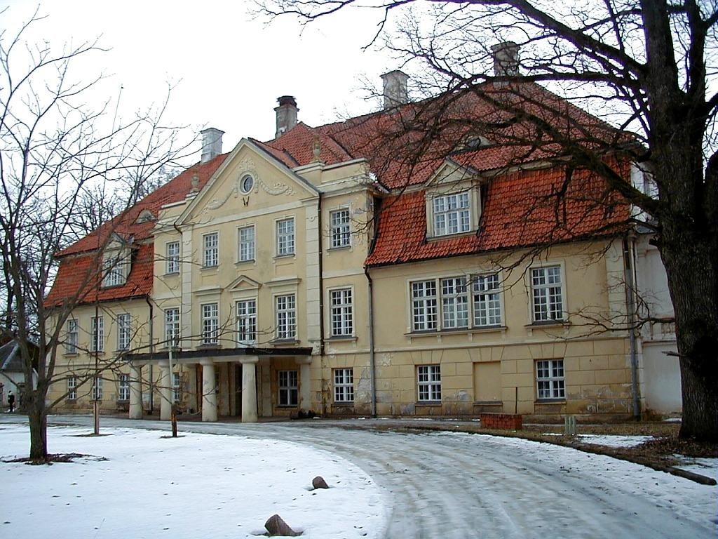 Manor house of Lehmburg Estate (LV: Mālpils pils)